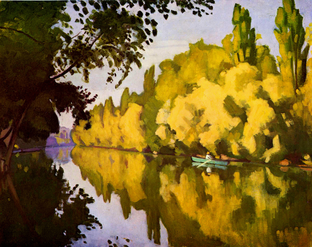 River Scene Albert Marquet